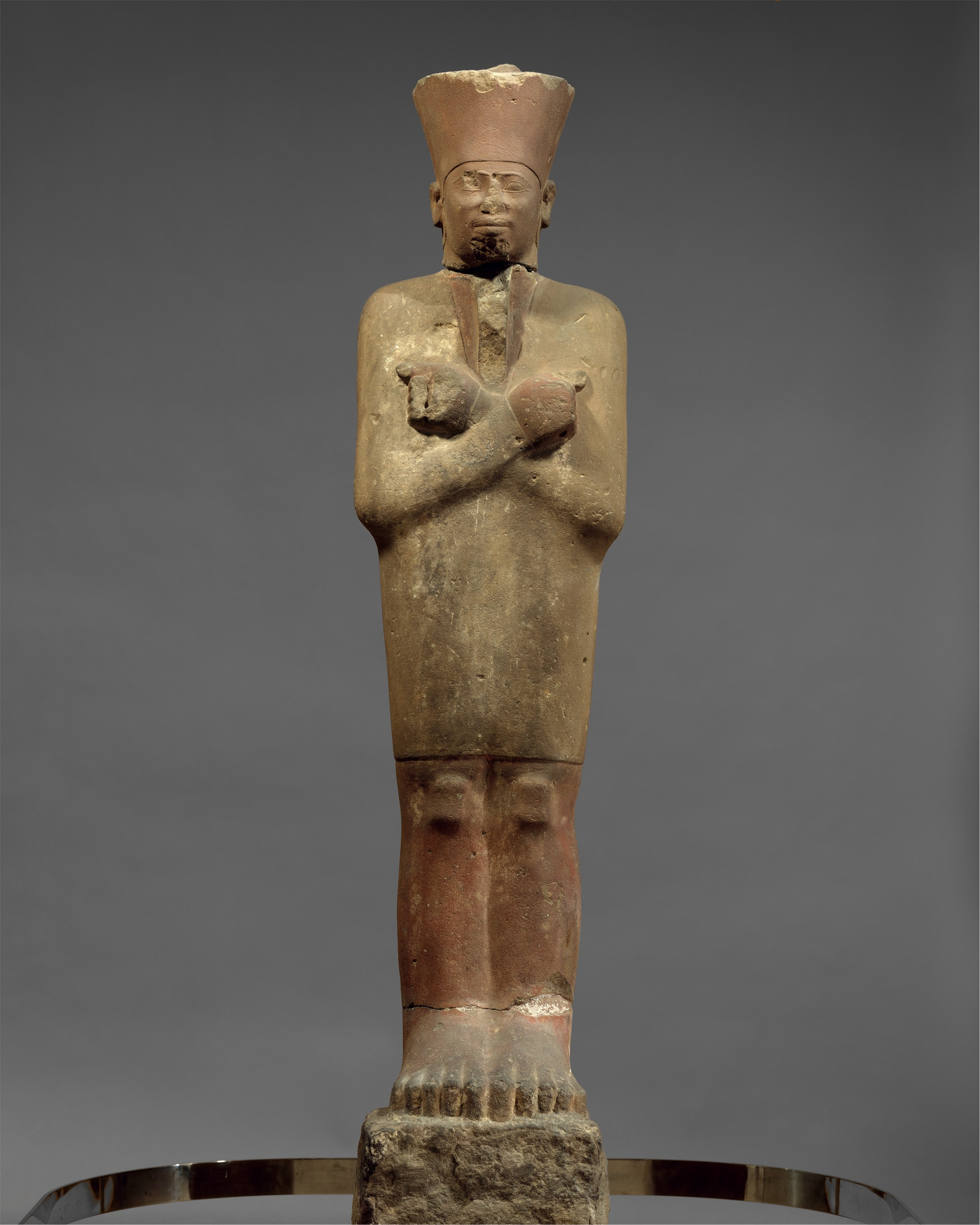 Statue, standing king, Mentuhotep, Nebhepetre